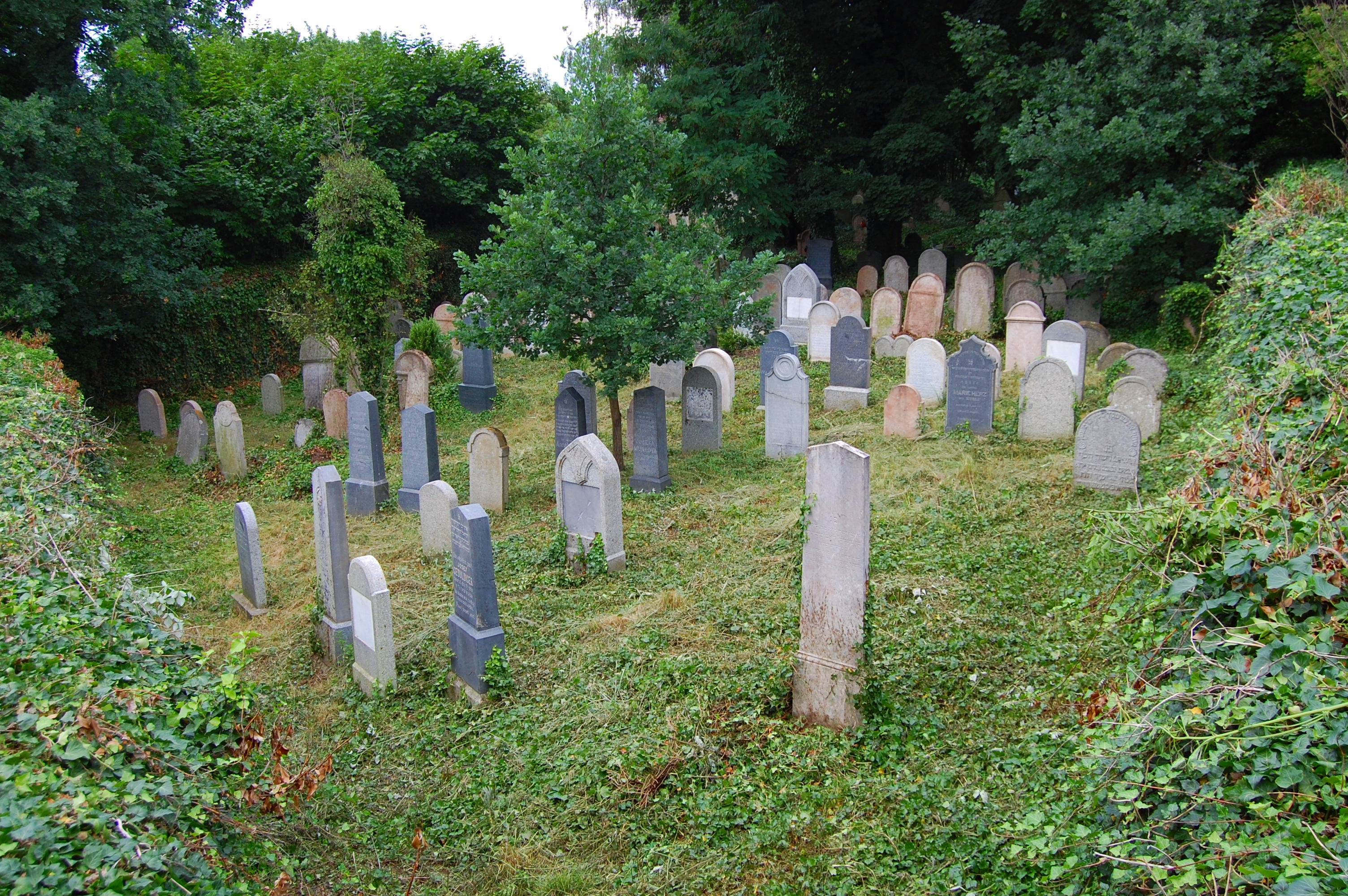 Jewish cemetery in Neveklov, Czech Republic